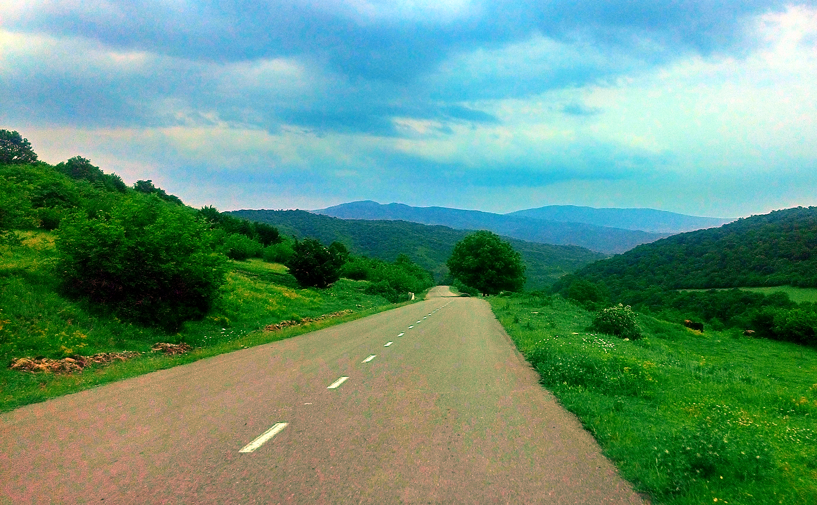 Georgian შ 65 route.